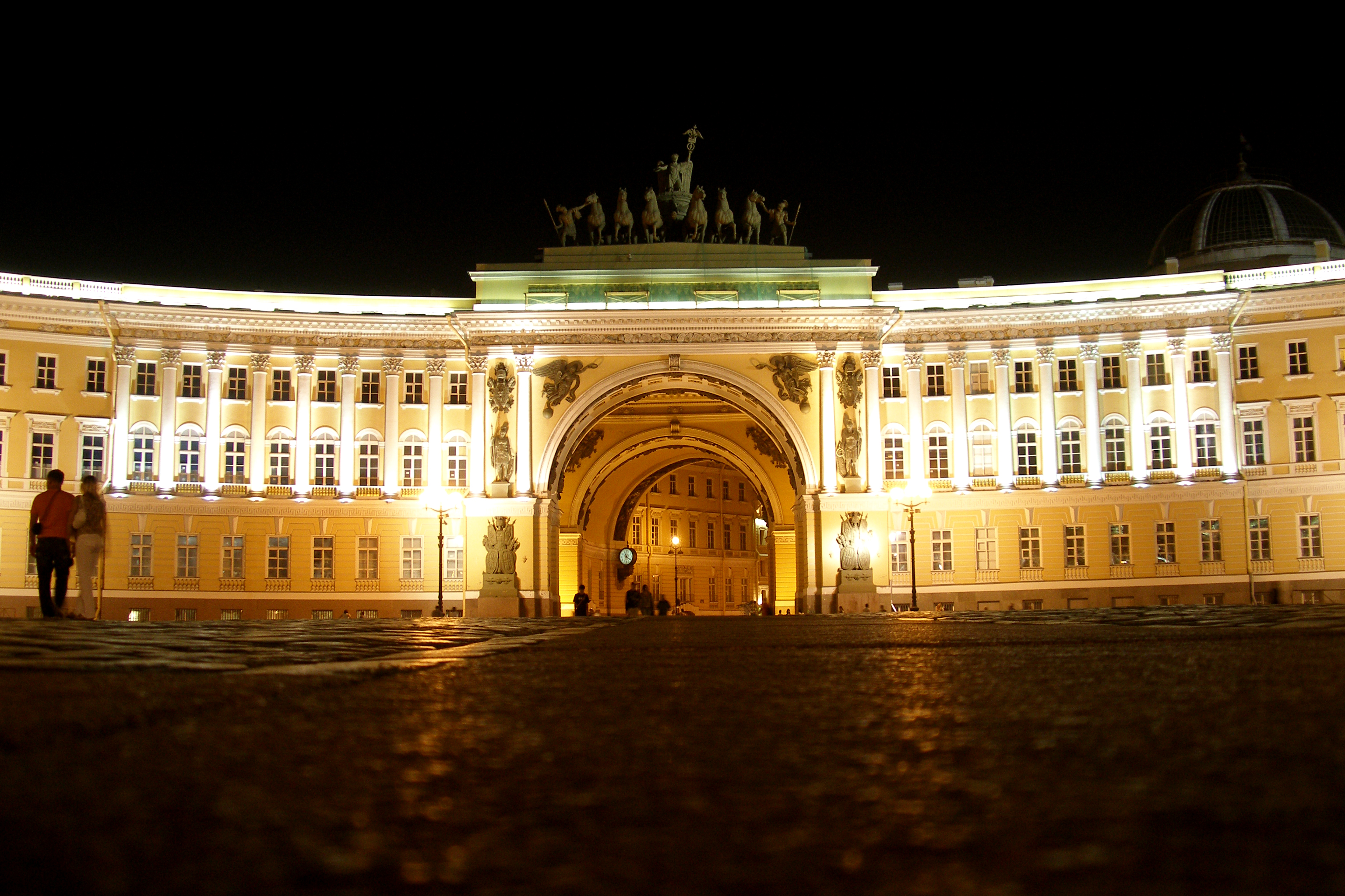 Triumphal arch commemorating the Russian victory over Napoleonic France in the Patriotic War of 1812, Saint Petersburg, Russia.